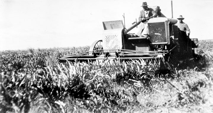 Auto-header harvesting crop of Wheatland Milo sorghum, Anchorfield, Brookstead.